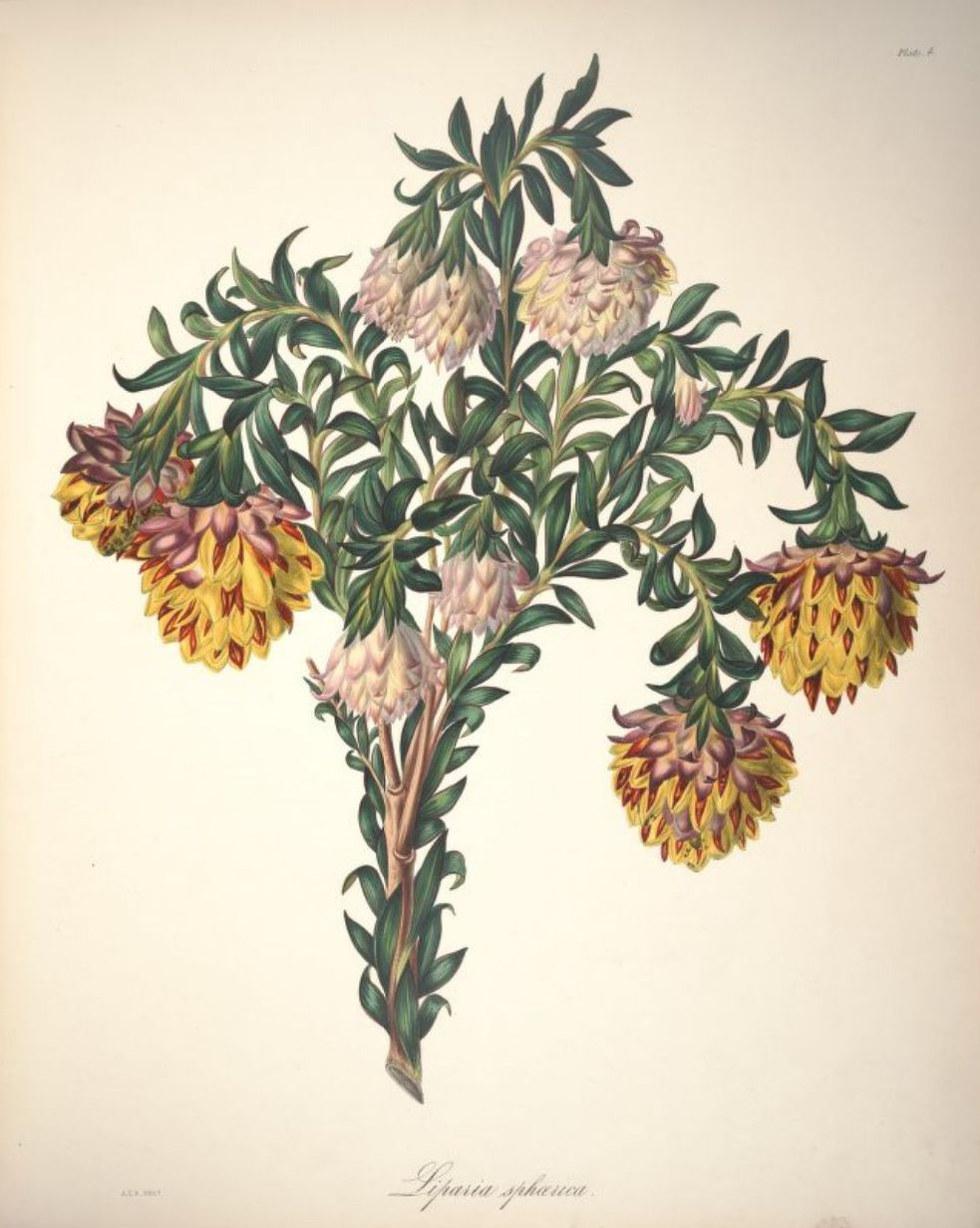 Liparia sphaerica L. is a synonym of Liparia splendens (Burm.f.) Bos & de Wit